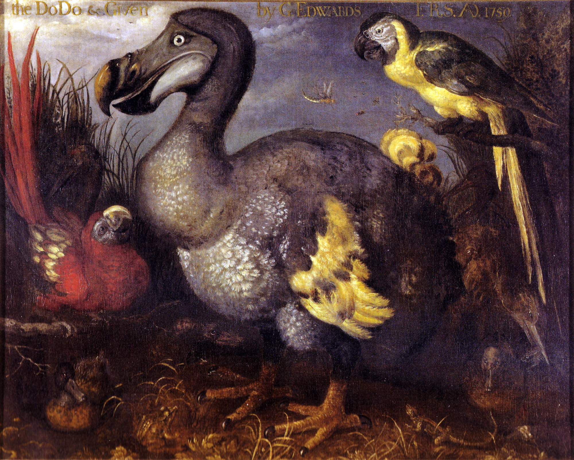 One of the most famous and often-copied paintings of a Dodo specimen, as painted by Roelant Savery in the late 1620s. The image came into the possession of the ornithologist George Edwards, who later gave it to the British Museum, hence the name. The bird swallowing a frog in the lower right may be the likewise extinct Red Rail. It has also been suggested that the two parrots are the extinct Lesser Antillean Macaw (left) and Martinique Macaw (right).